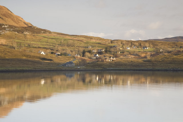 Torrin The village of Torrin from the west bank of Loch Slapin